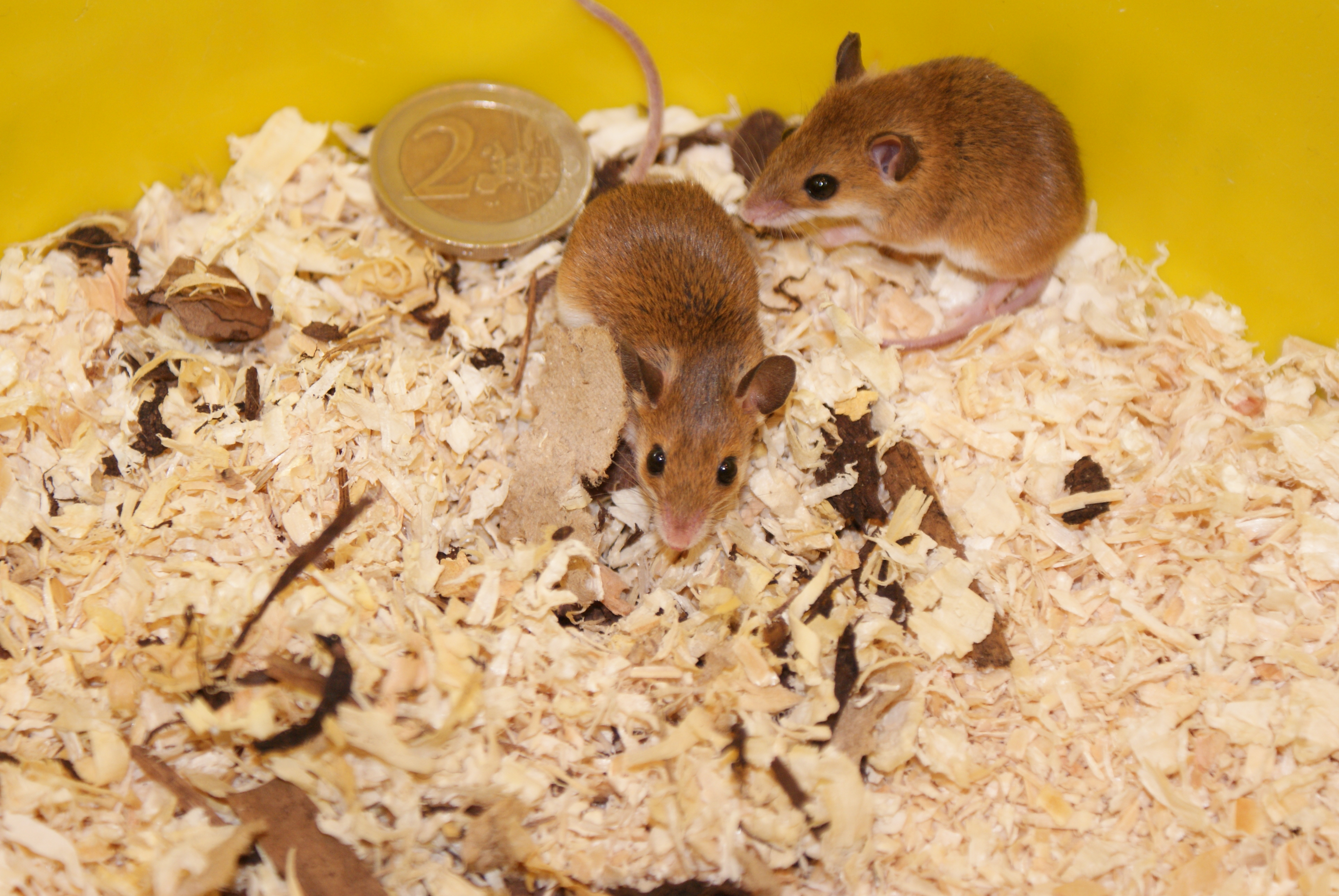 Two African Pygmy Mice (Mus musculoides) next to an 2-Euro-Coin